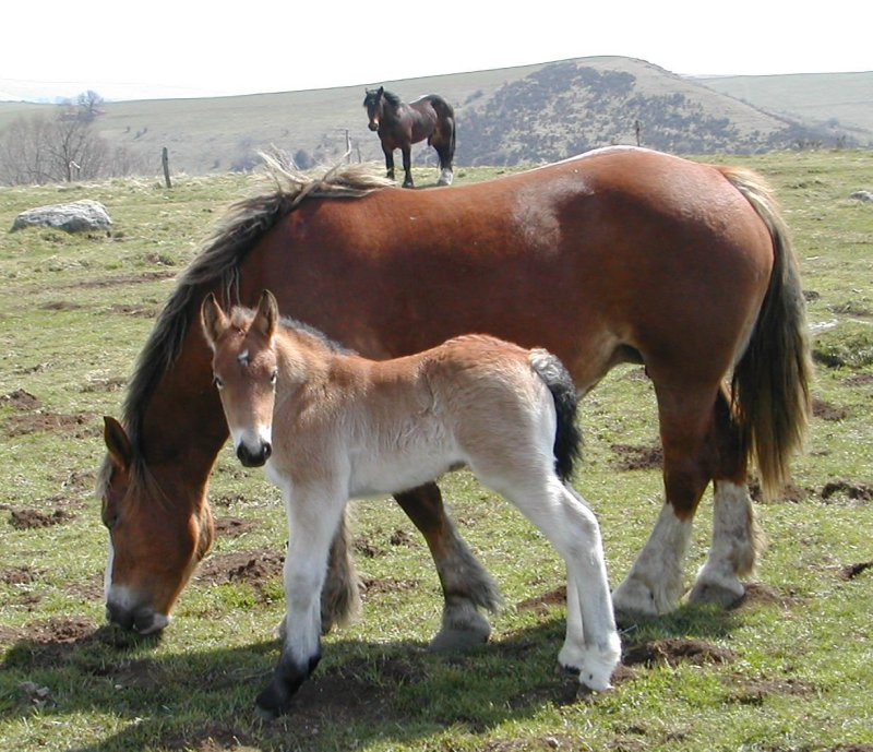 A mare with her colt